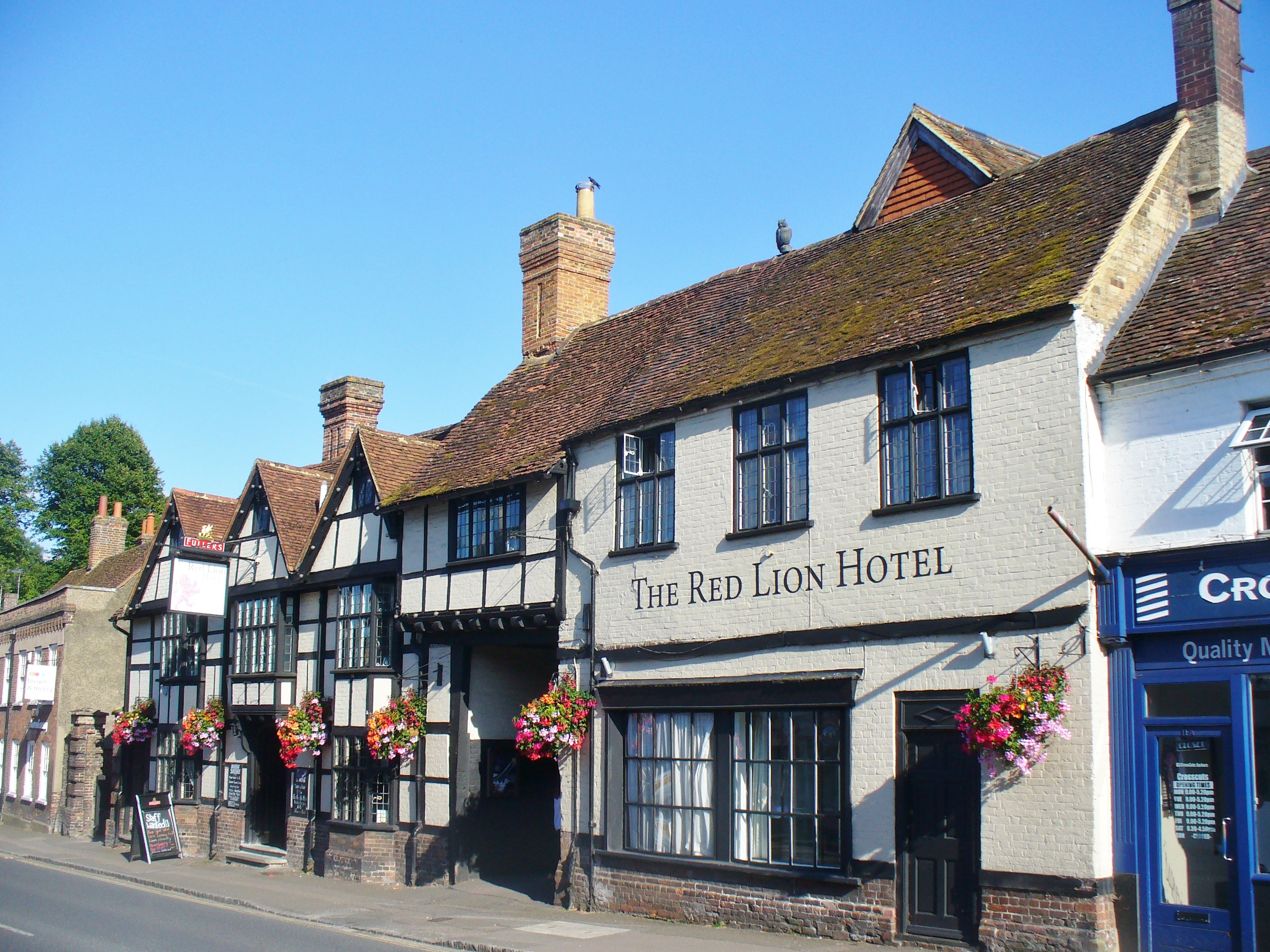 Wendover - The Red Lion Hotel. Large old coaching inn on Wendover's High Street.